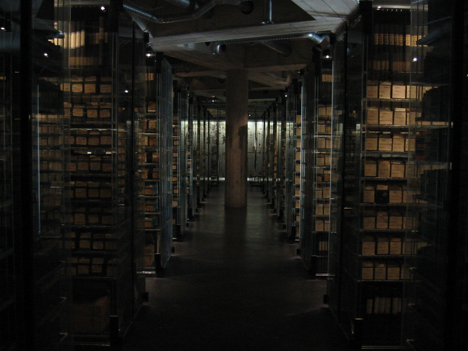 The Prisoner of War registry of the International Committee of the Red Cross (ICRC) from the first World War (1914-1918), containing about seven millions entries; on display in Room 6 of the International Red Cross and Red Crescent Museum in Geneva, Switzerland